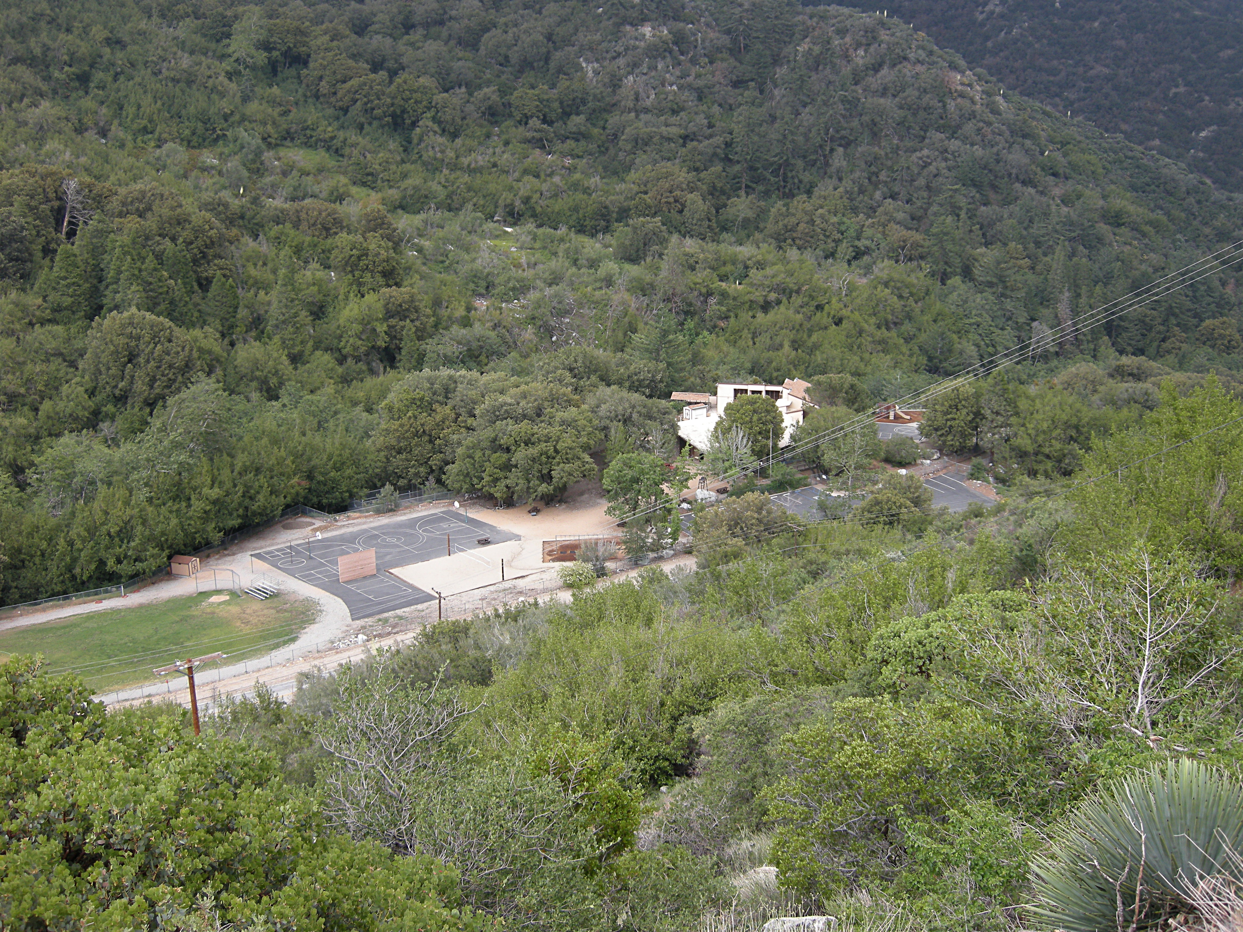 Mount Baldy School — on lower Mount Baldy, in the San Gabriel Mountains, Southern California.